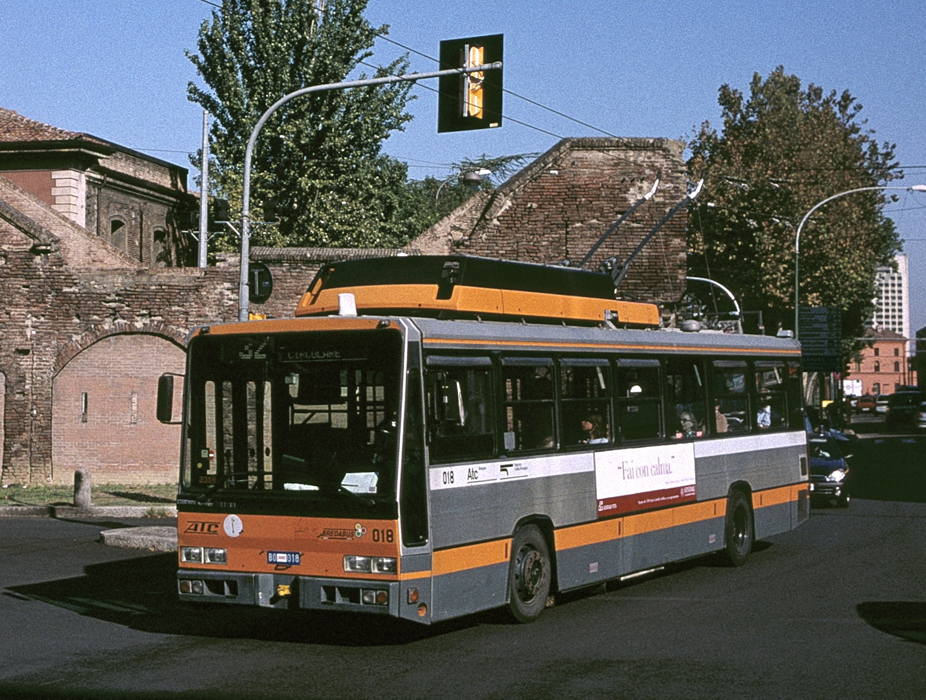 Bologna trolleybus 018 was built in 1990 by Bredabus, one of 10 such vehicles purchased by ATC of Bologna for local transit service. It is pictured southbound at Porta San Donato on counterclockwise circular route 32, which (with clockwise route 33) was reconverted to trolleybuses in 2002, 23 years after route 32/33 was previously converted from trolleybuses to motorbuses.